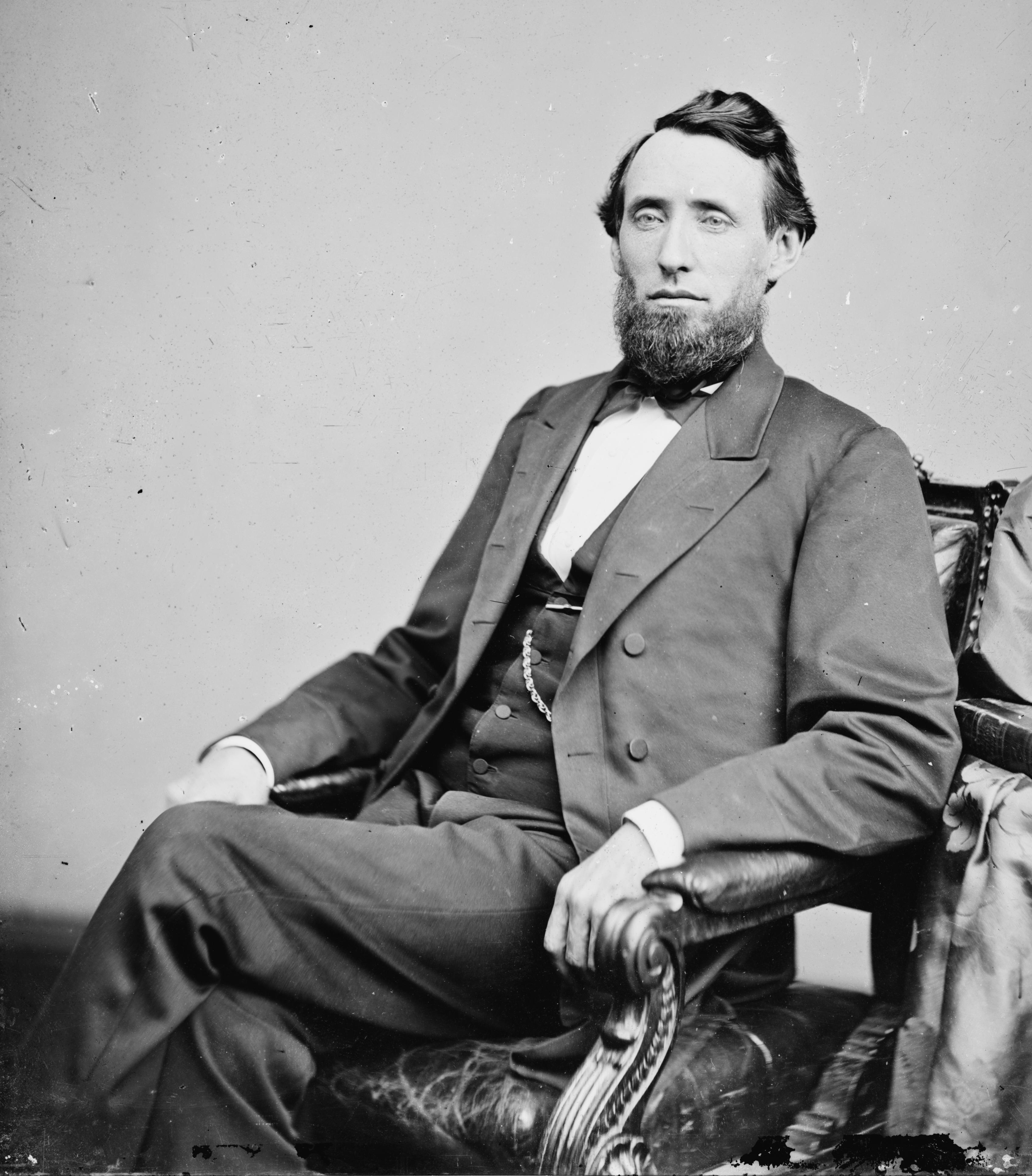 Shelby Moore Cullom. Library of Congress description: "S. M. Cullom".